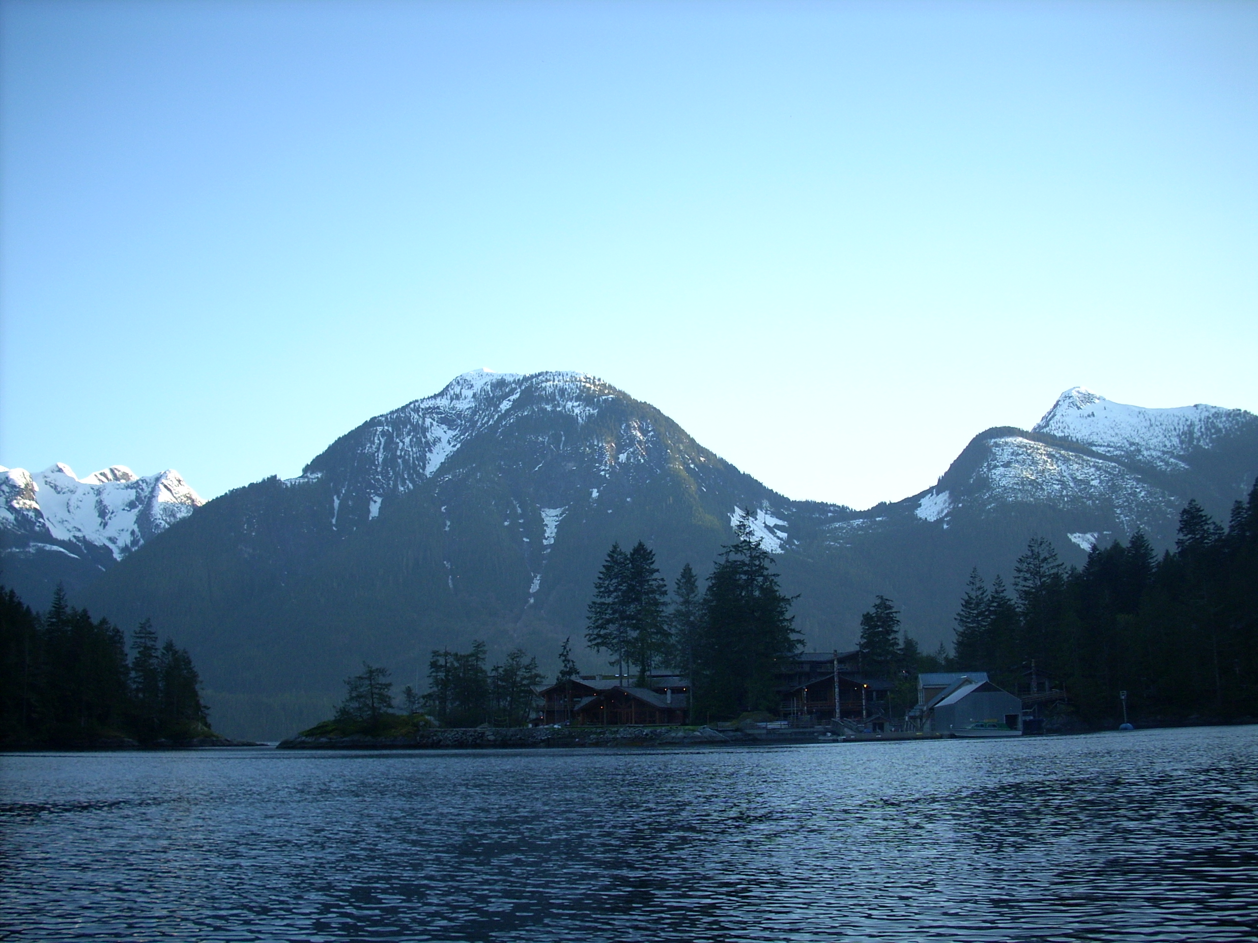 Mt Arthur overshadowing the entrance to Princess Louisa Inlet and the Malibu Club. Mt. Wellington is the peak off to the right & Mount Fredrick William is the one way off to the left beside Arthur.